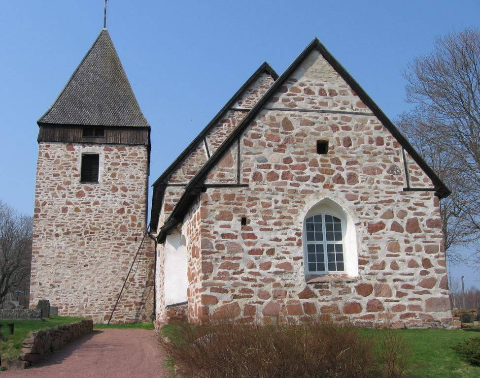 Hammarland church from the backside, 14th century, Åland, Finland